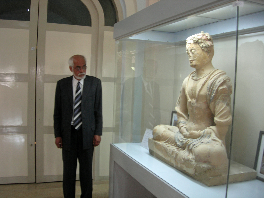 Yes Kabul has a Museum. That said one of it?s most noticeable features is it?s near emptiness. Decades of war has taken it?s toll on Kabul?s culture scene. First The Museum was ransacked by the Mujaheddin?s in the 90?s and a lot of what was left got a hammer taken to it in Taliban times by the the ironically named Minister for Culture. Apparently they took a disliking to the un-Islamic nature of Afghanistan?s early Buddhist history. More from Afghanistan on my site contained in these posts. CC